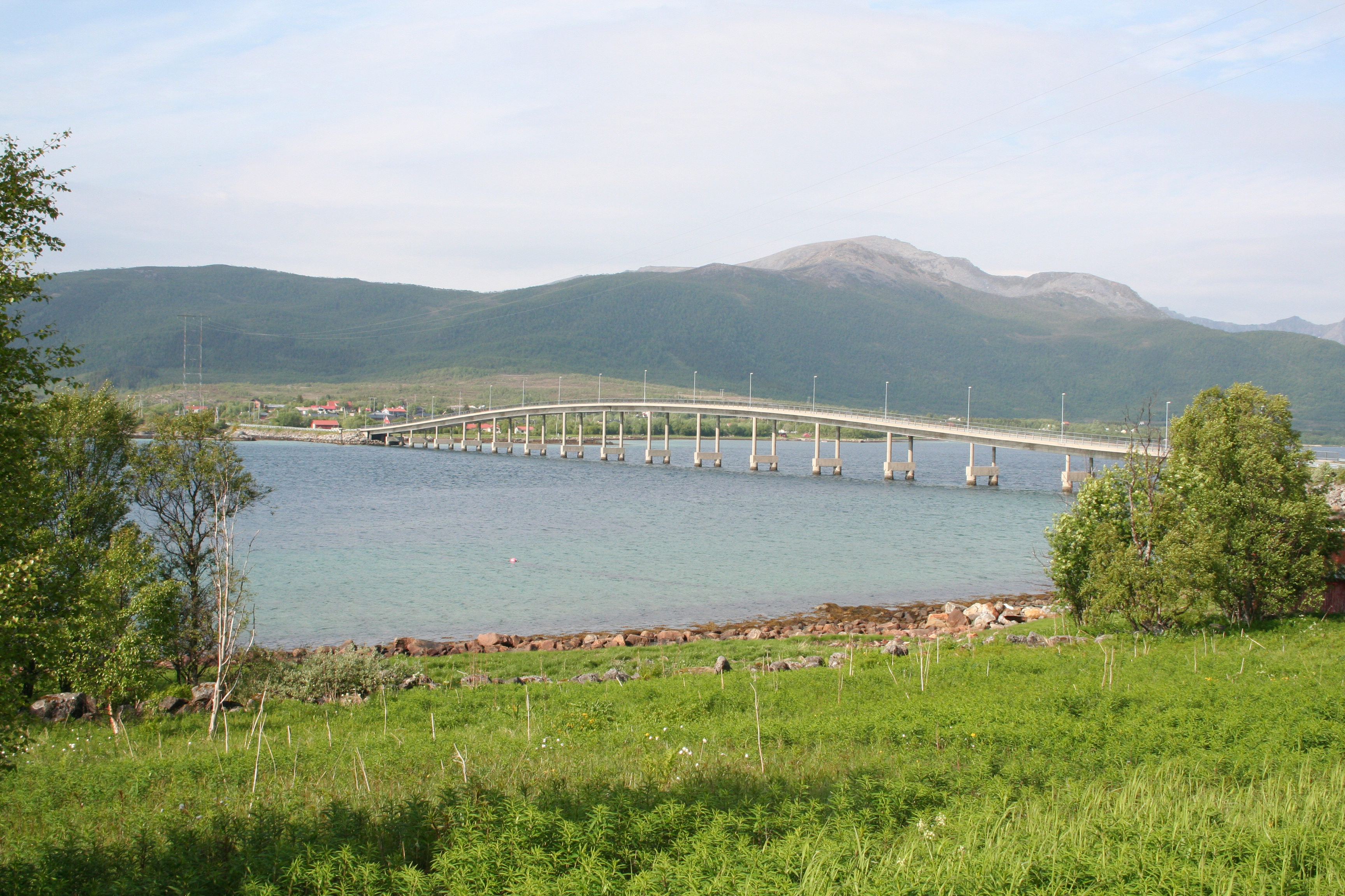 Picture of Kvalsaukan Bridge in Norway, taken 11 June 2006. This picture is taken by me.